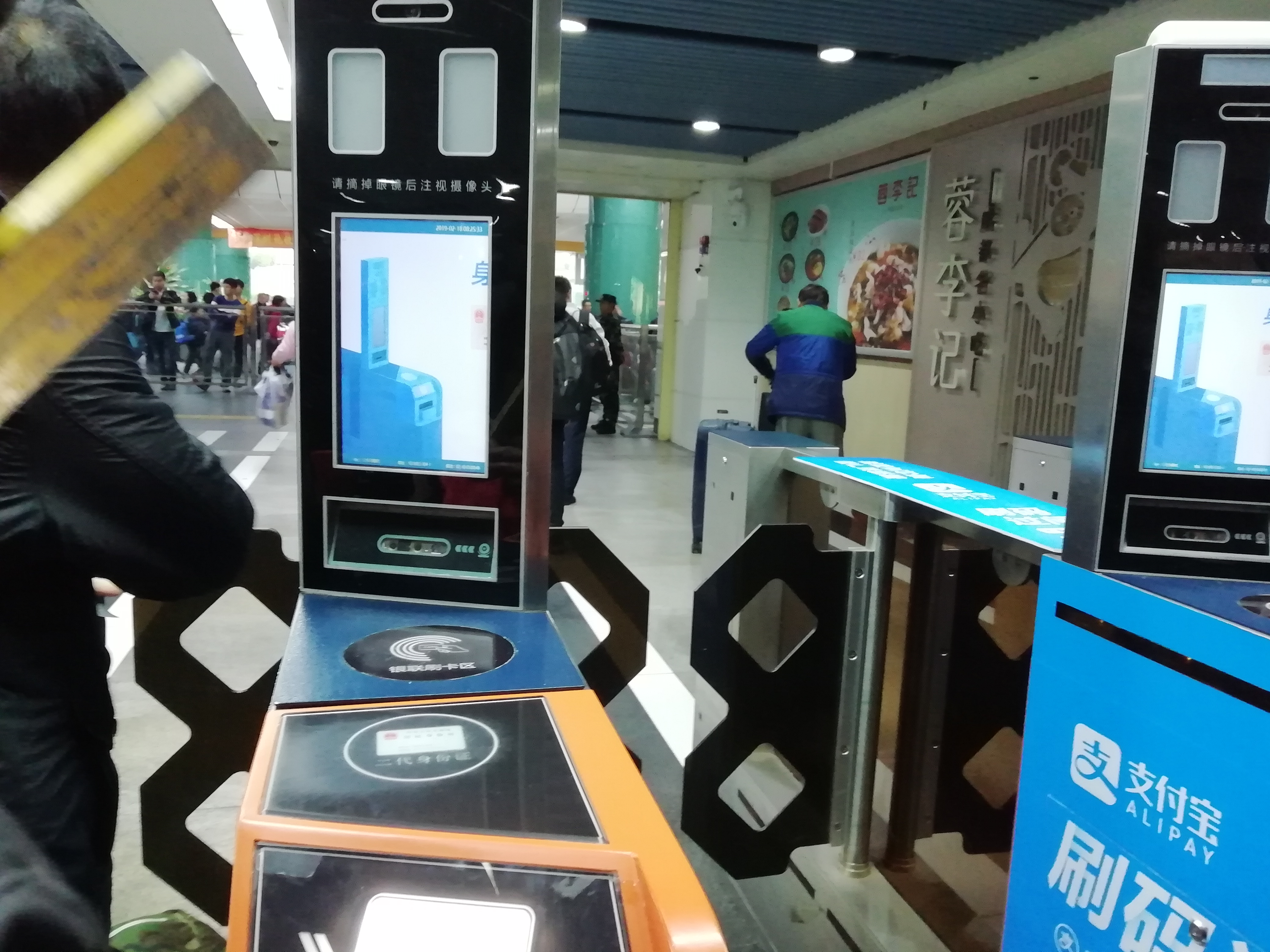 The exit turnstile in Shenzhen Railway Station, with Alipay QR Code scanner. 中文（中国大陆）: 深圳站加装了支付宝二维码扫描器的出站闸机